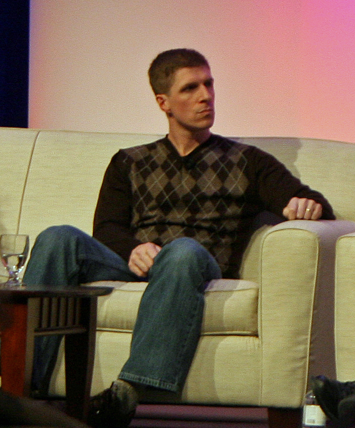 Chuck Hogan, an American novelist.